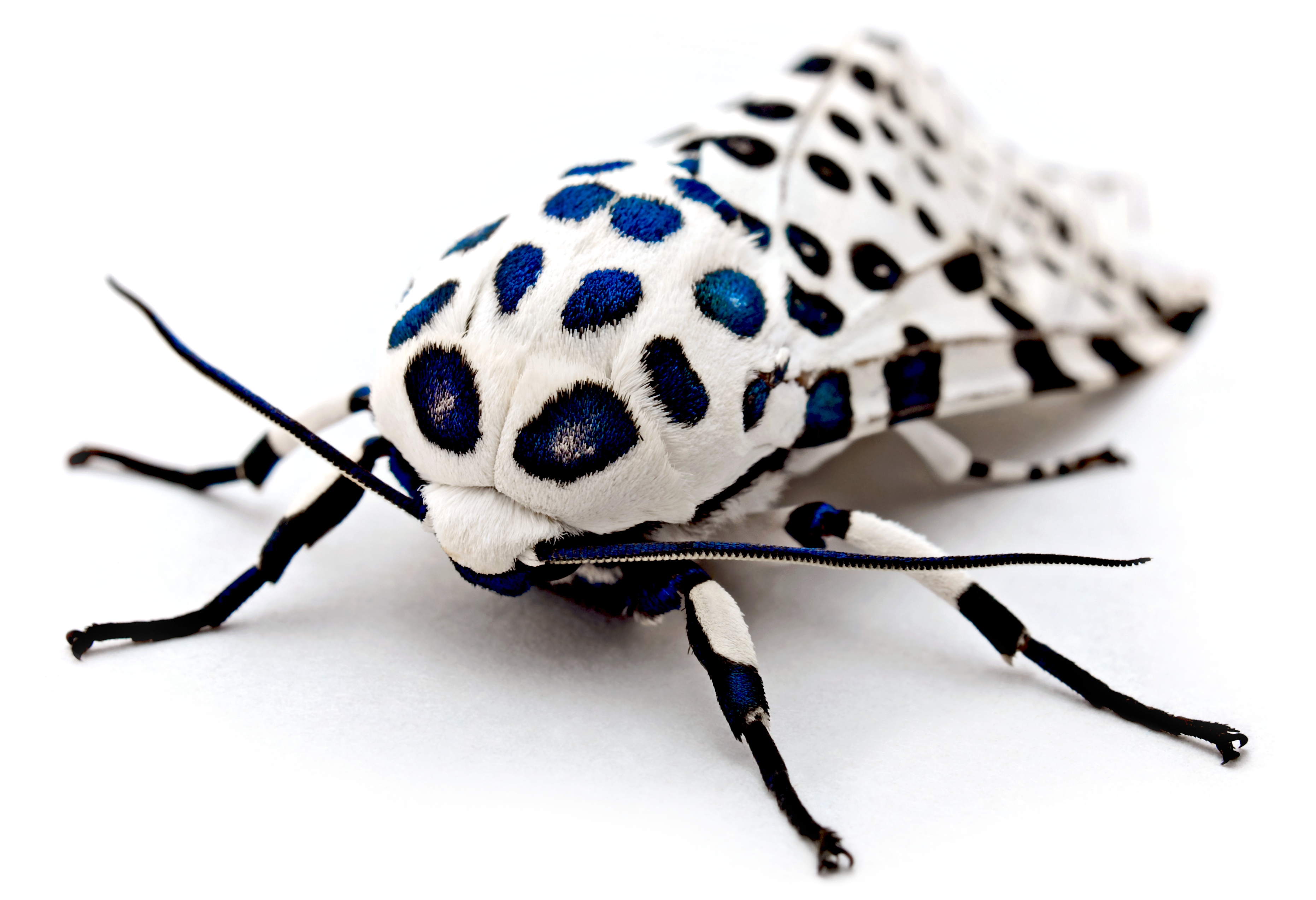 Giant leopard moth found at 1AM near a light bulb in Newport News, Virginia.